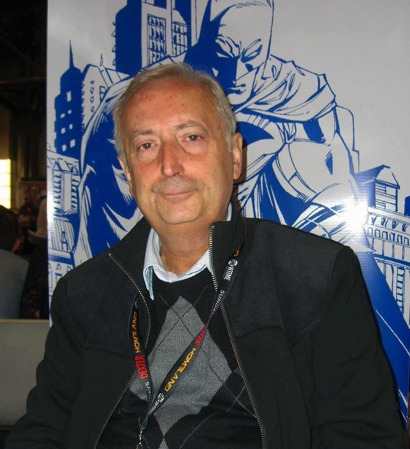 Comics creator Sandu Florea at the New York Comic Con, October 15, 2011. This photo was created by Luigi Novi. It is not in the public domain, and use of this file outside of the licensing terms is a copyright violation.